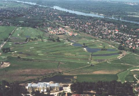 Pólus Palace Thermal Golf Club Hotel (closed). At back, the Danube. - Göd, Hungary, aerialphotography